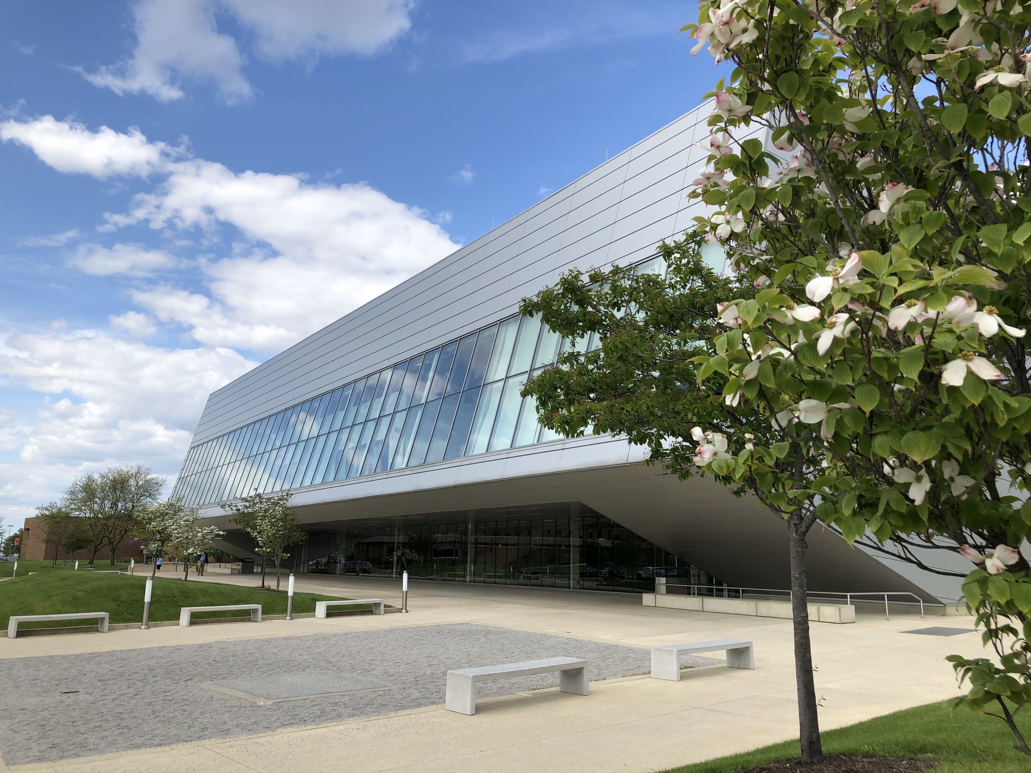 The Wolfe Center at BGSU